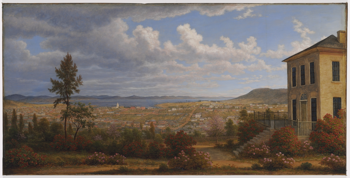 Painting of Hobart, Tasmania, Australia